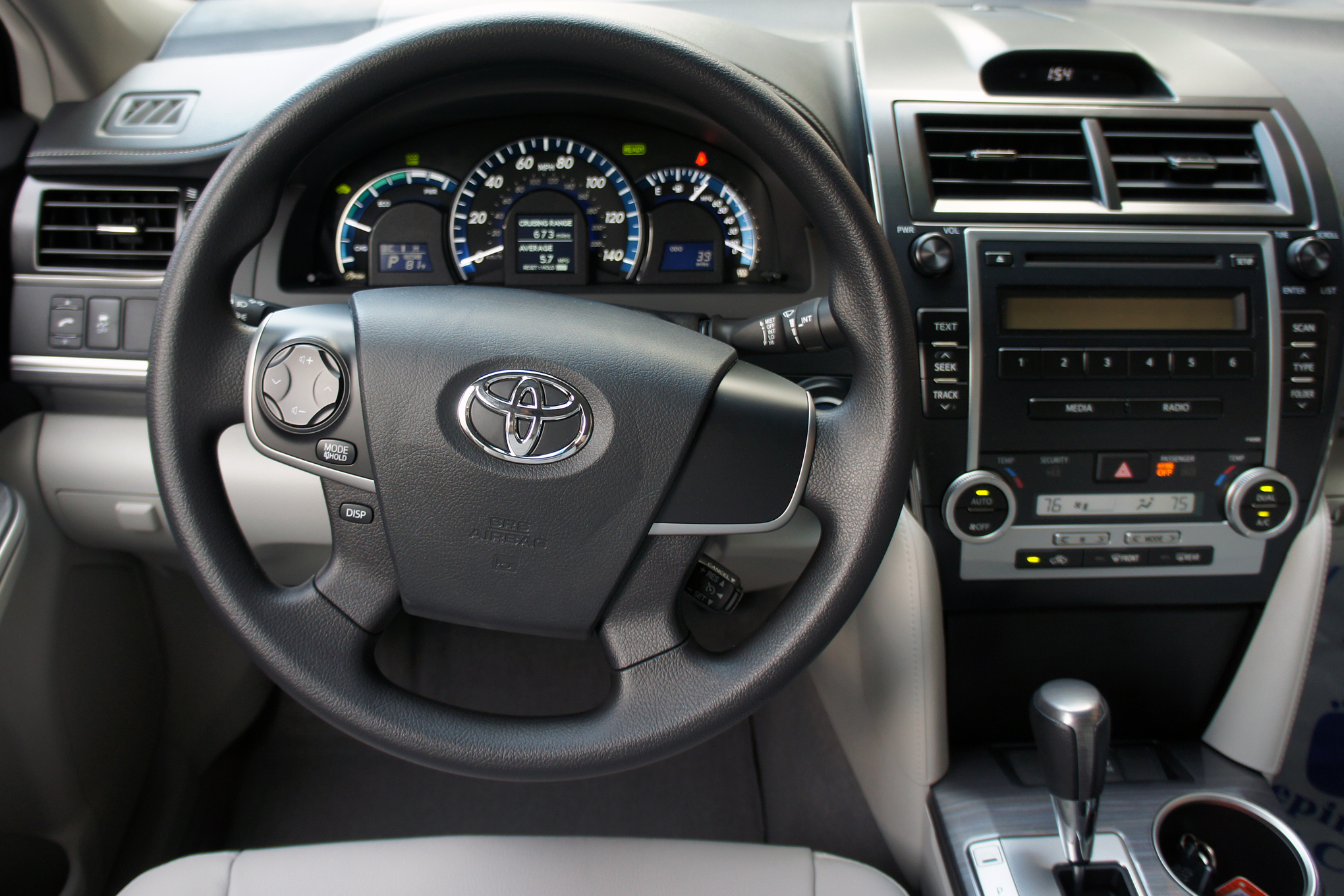 Interior view of the instrument and control panels of the 2012 Toyota Camry Hybrid LE (US version)